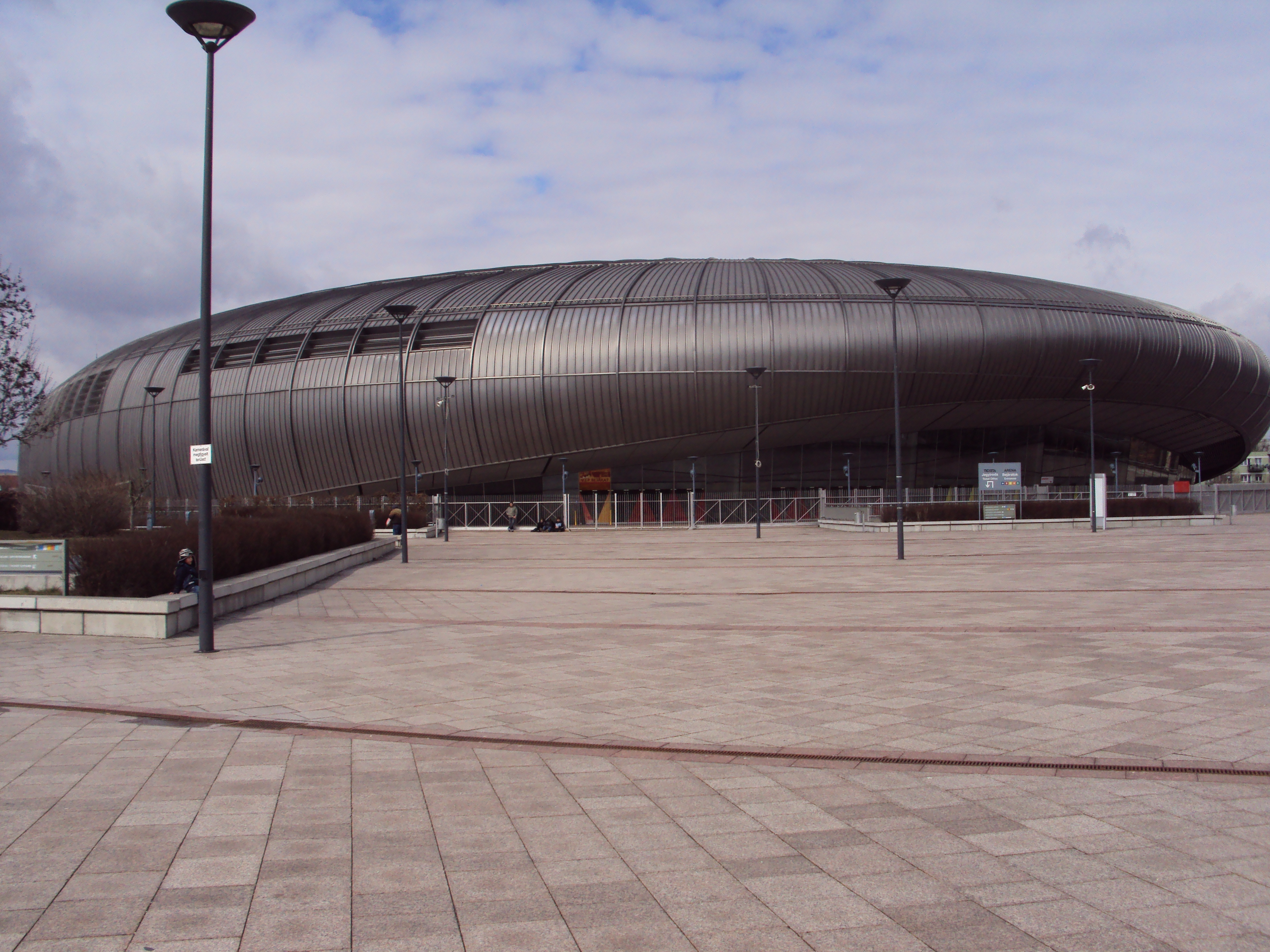 Papp László sporthall in Budapest, Hungary.